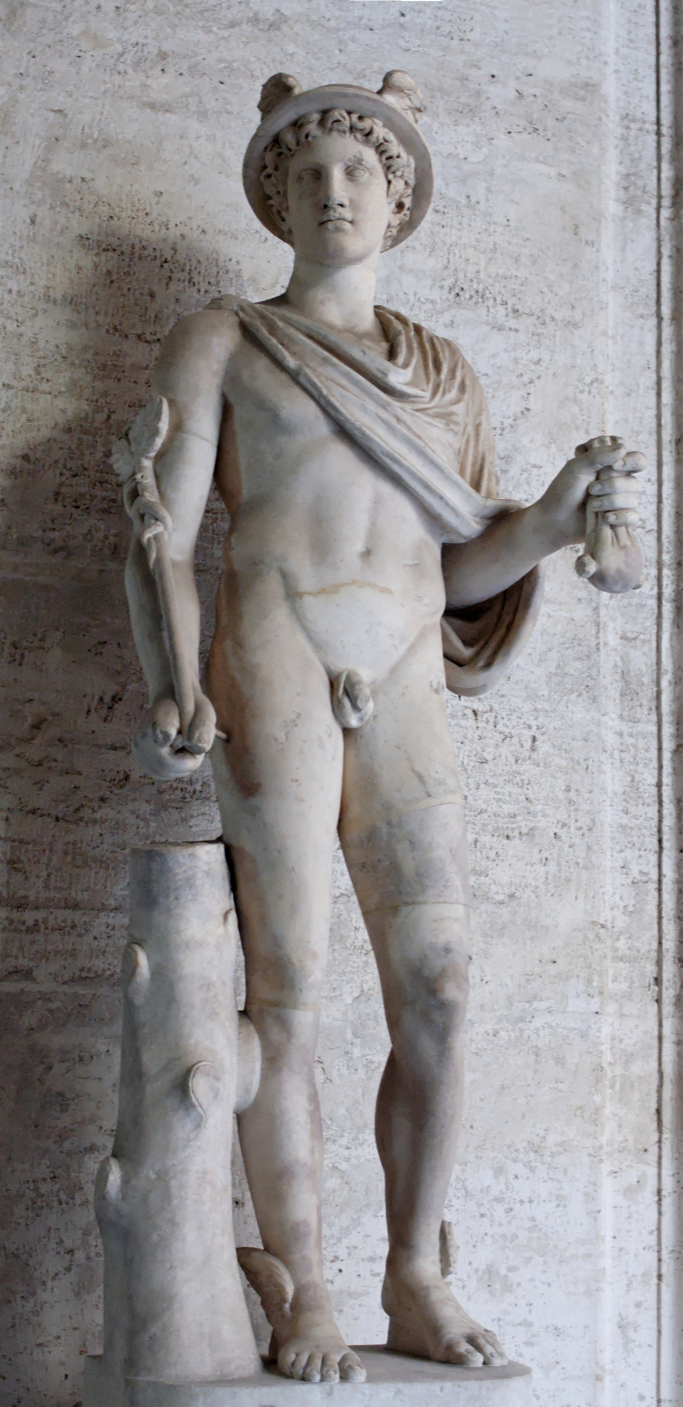 Statue of Hermes. Marble, Roman copy after a Greek original of the early 4th century BC.